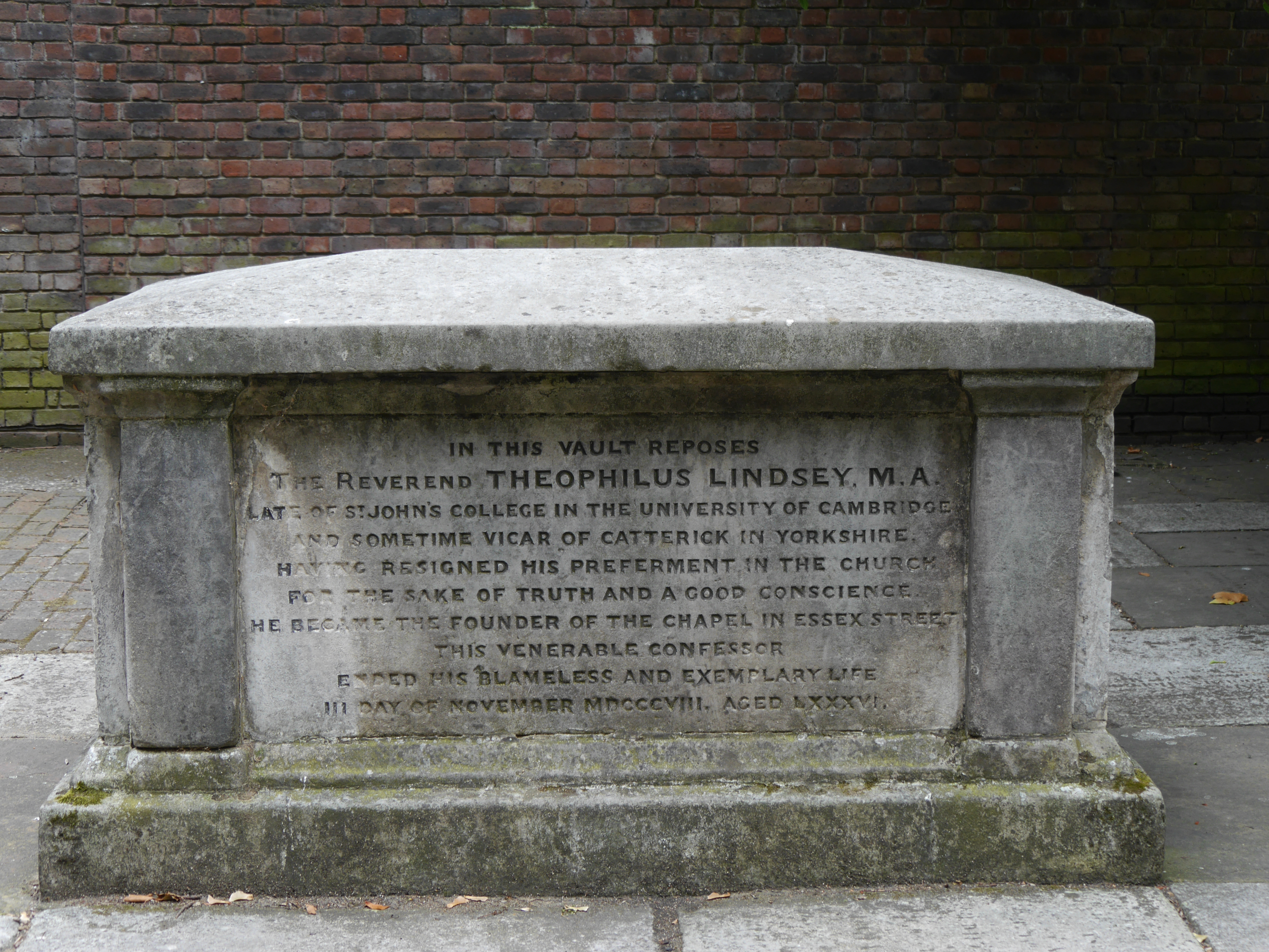 Bunhill Fields, London